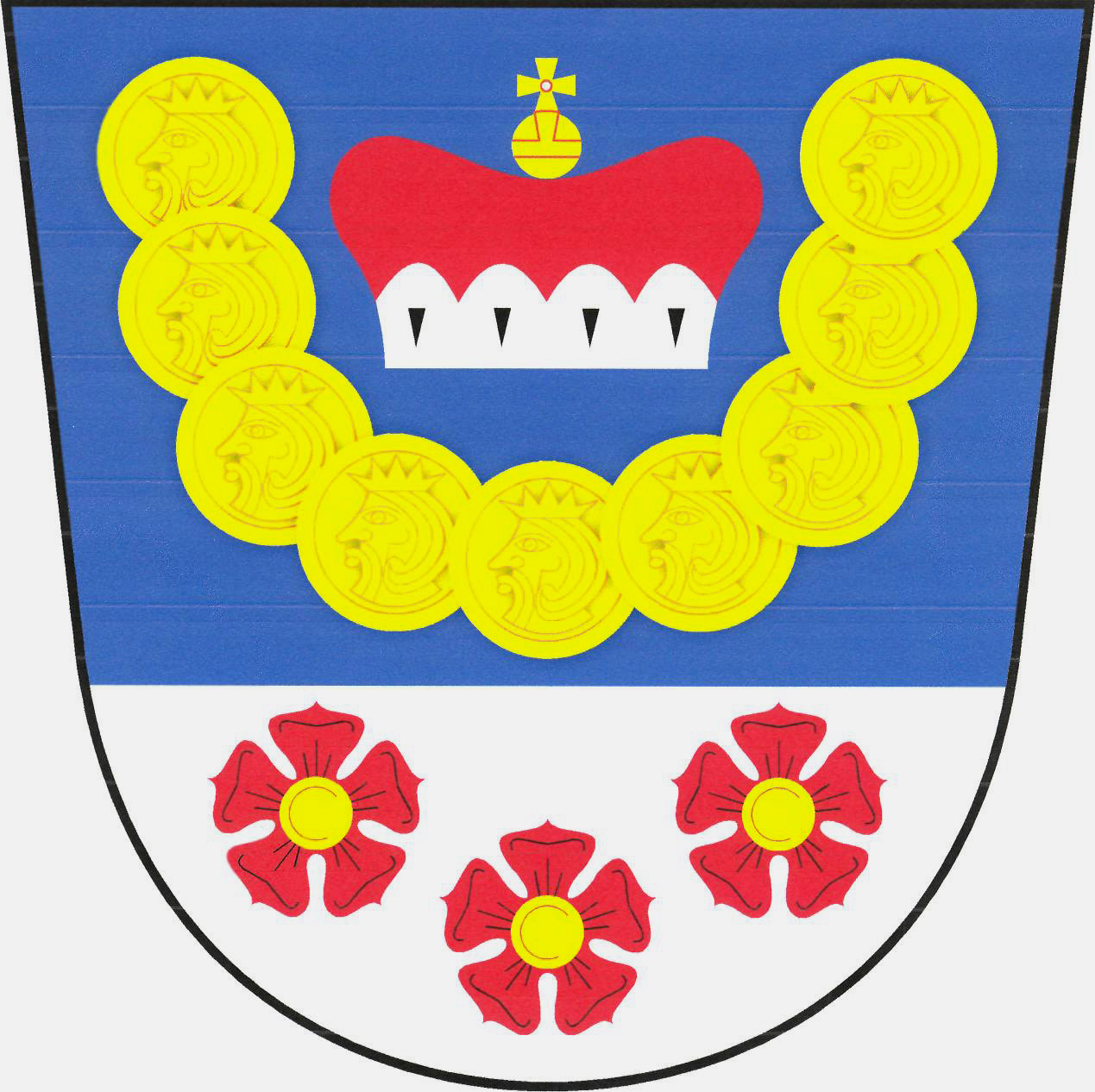 Municipal coat of arms of Cetoraz village, Pelhřimov District, Czech Republic.